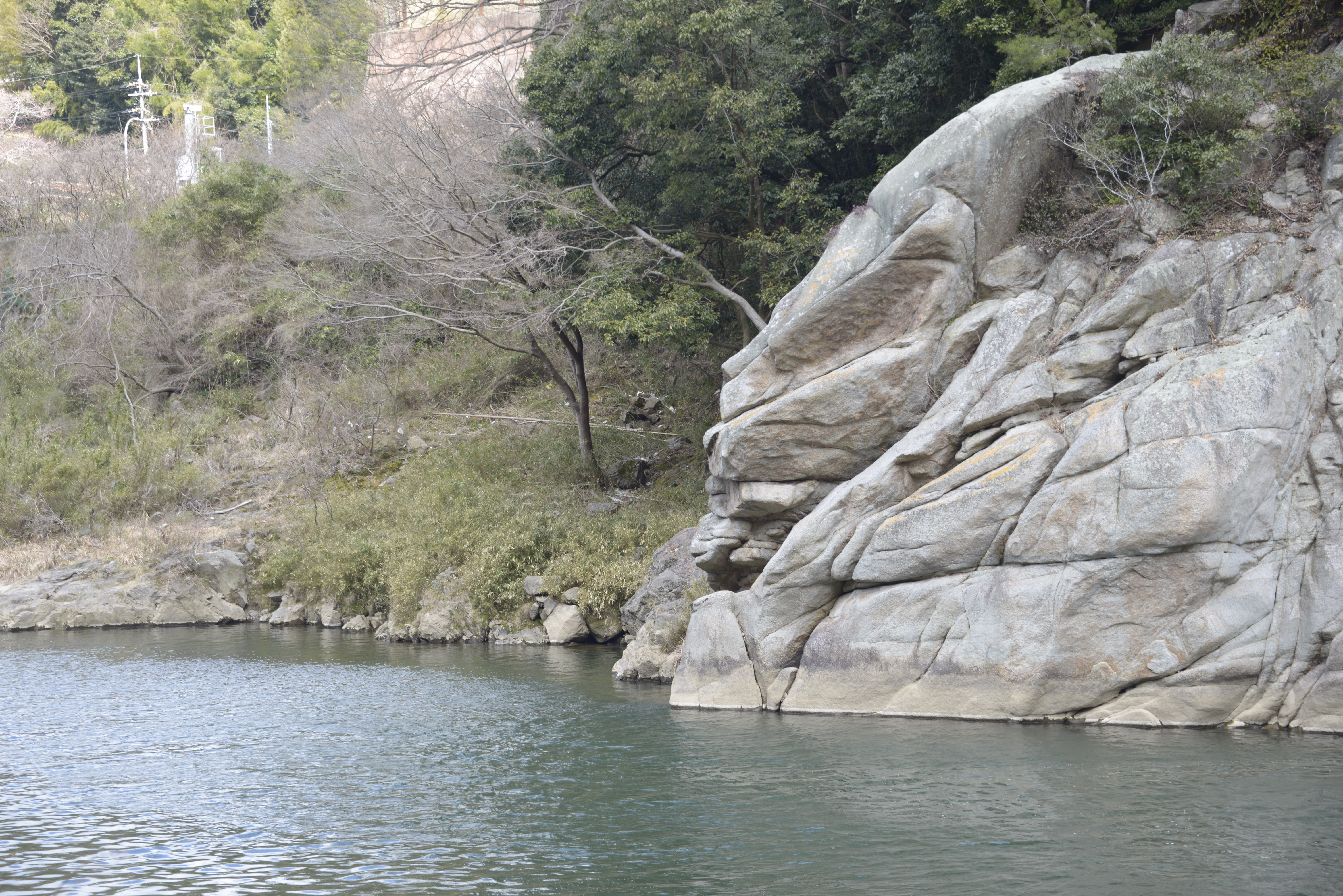 kasagi,kyoto oketu